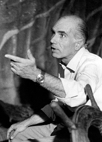 The Italian actor and director Nino Manfredi holding the puppet of Pinocchio on the set of the TV serial The Adventures of Pinocchio. The Italian director Luigi Comencini gives him some directions. Rome, 1971